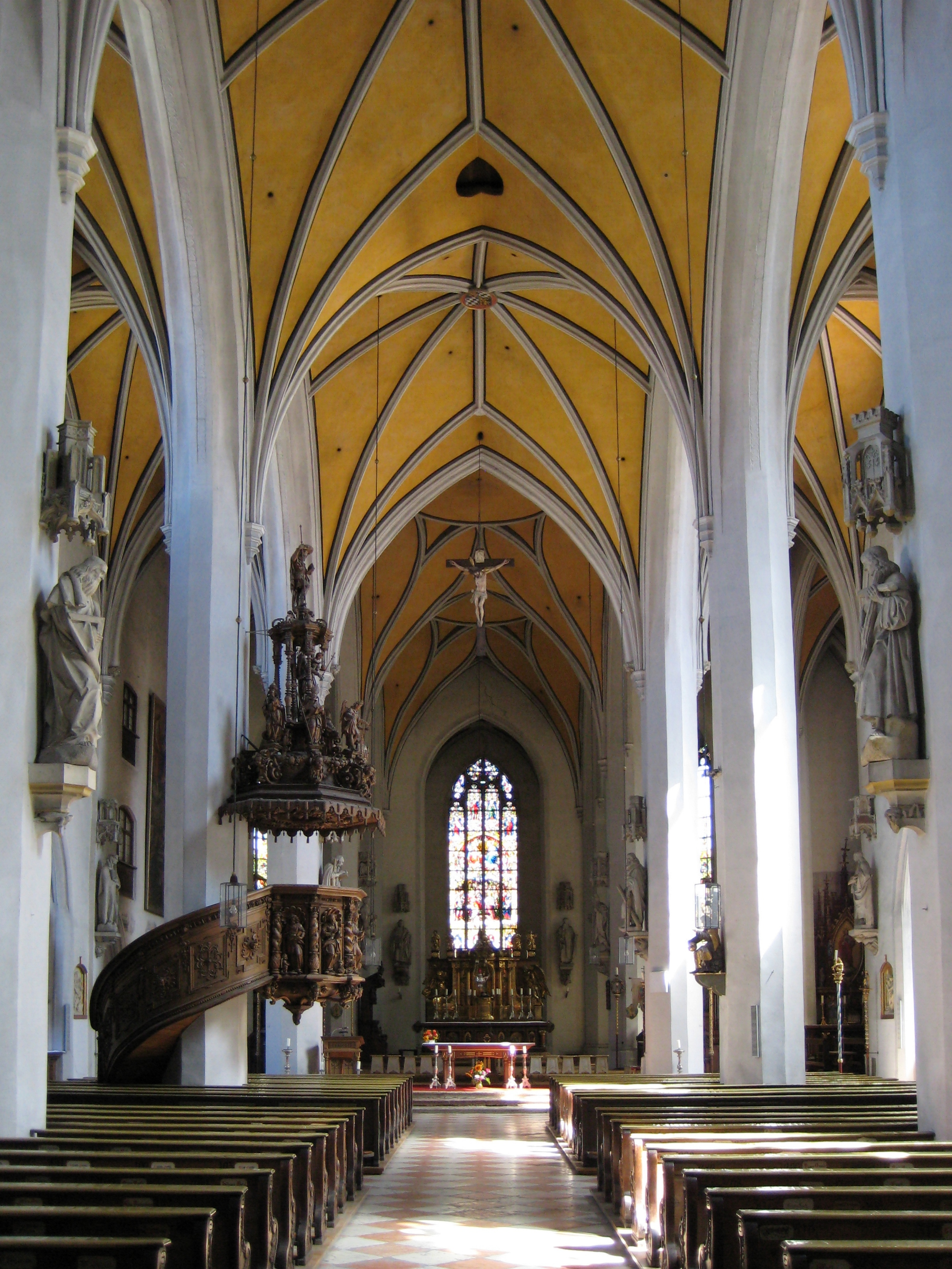 Wasserburg am Inn, interior of Church St. Jakob